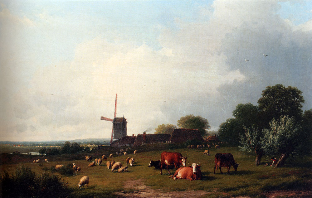 A Panoramic Summer Landscape With Cattle Grazing In A Meadow By A Windmill